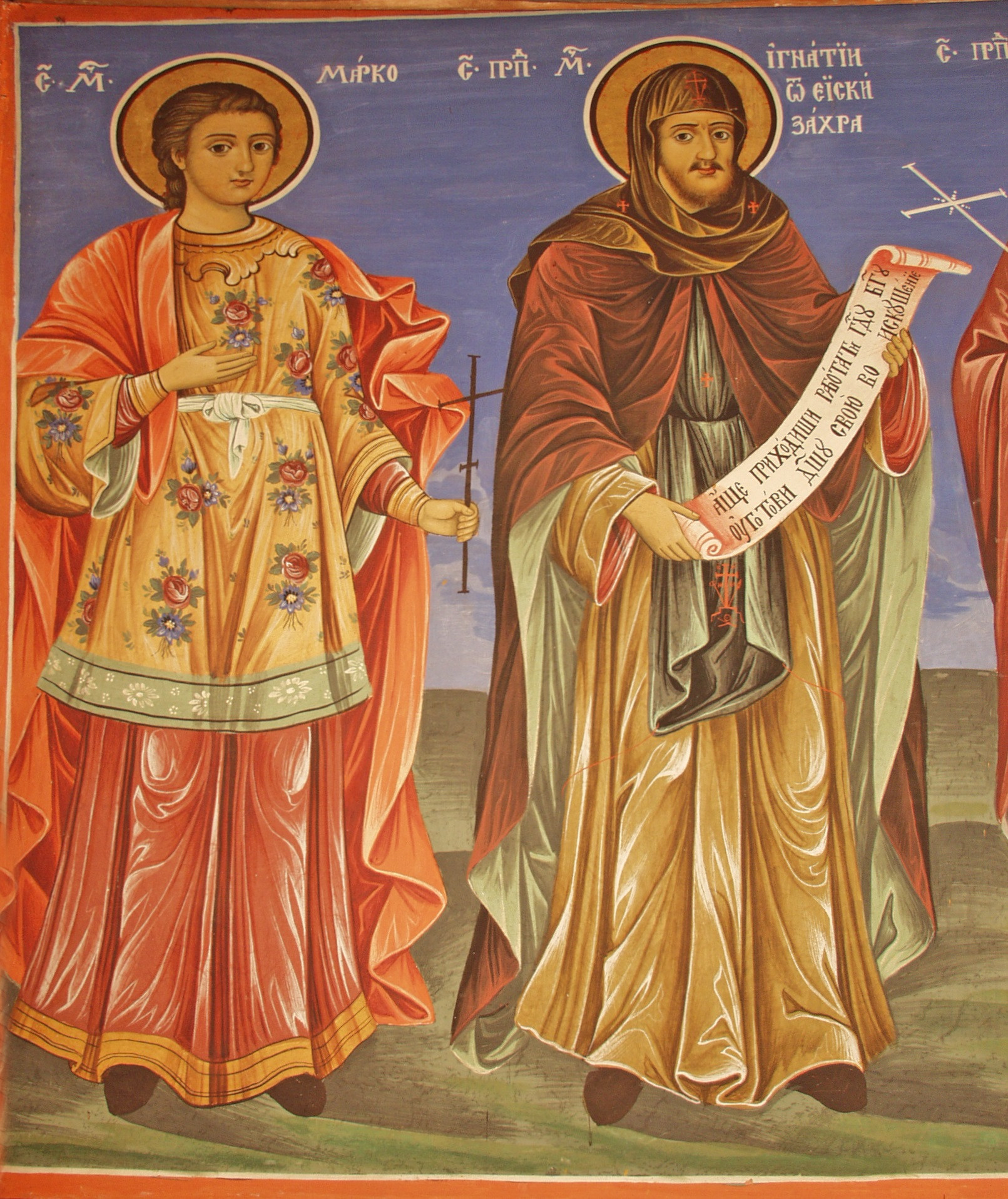 Archangels Chapel in Rila Monastery Frecos.